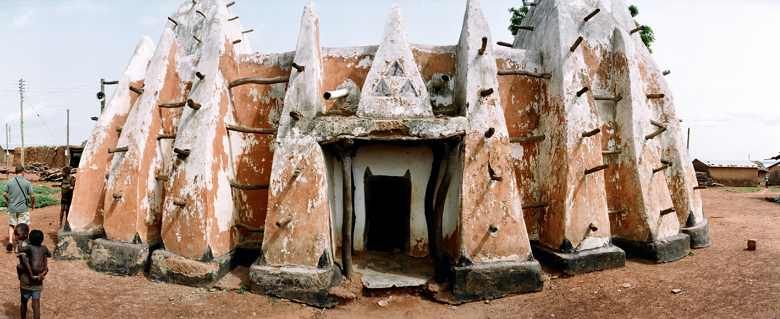 The Larabanga Mosque, Ghana. Picture is taken with a horizon "swing-lens" panoramic camera, which makes the building walls appear curved.